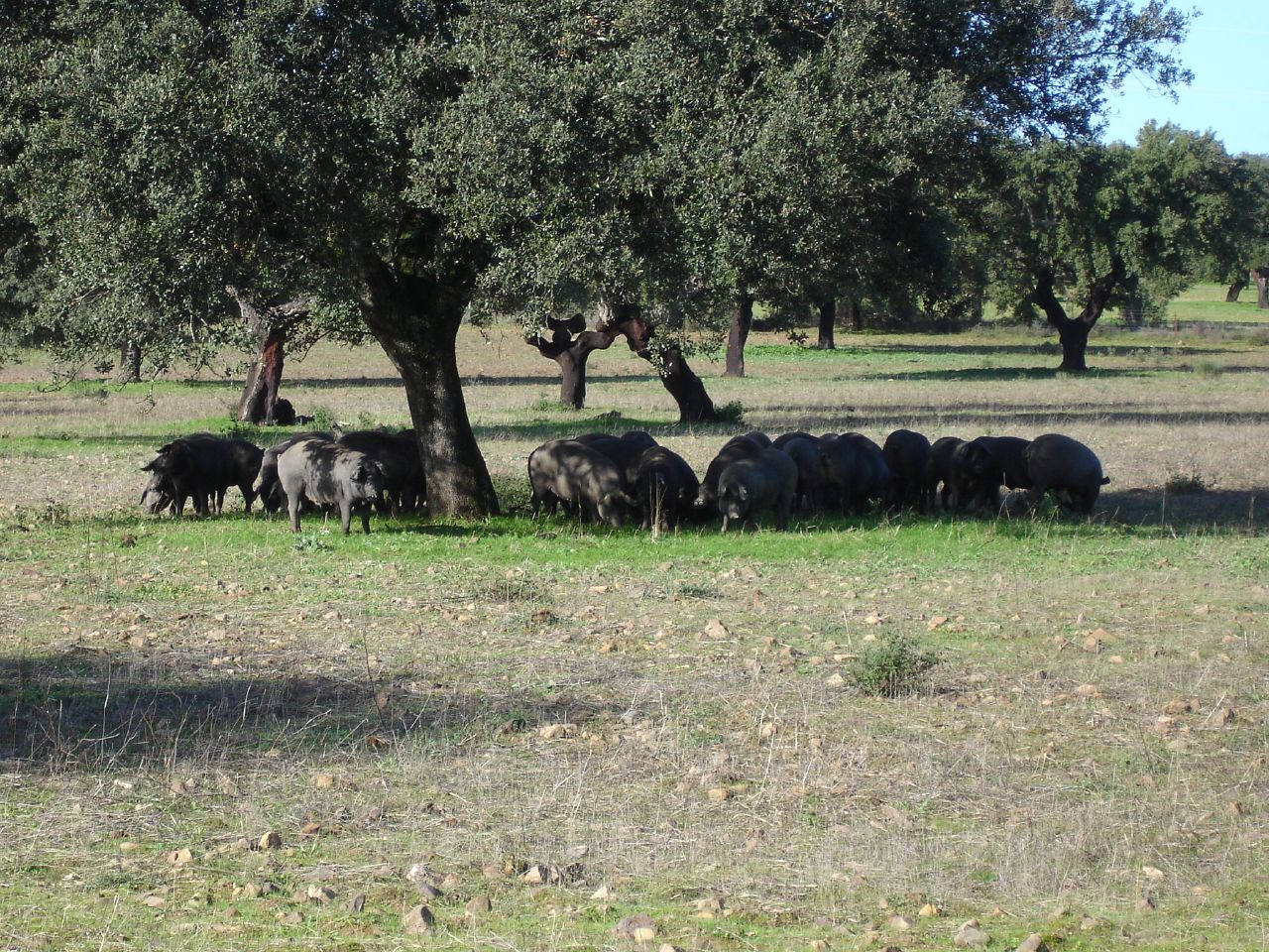 A dehesa in Extremadura, Spain. Black Iberian pigs in the foreground.